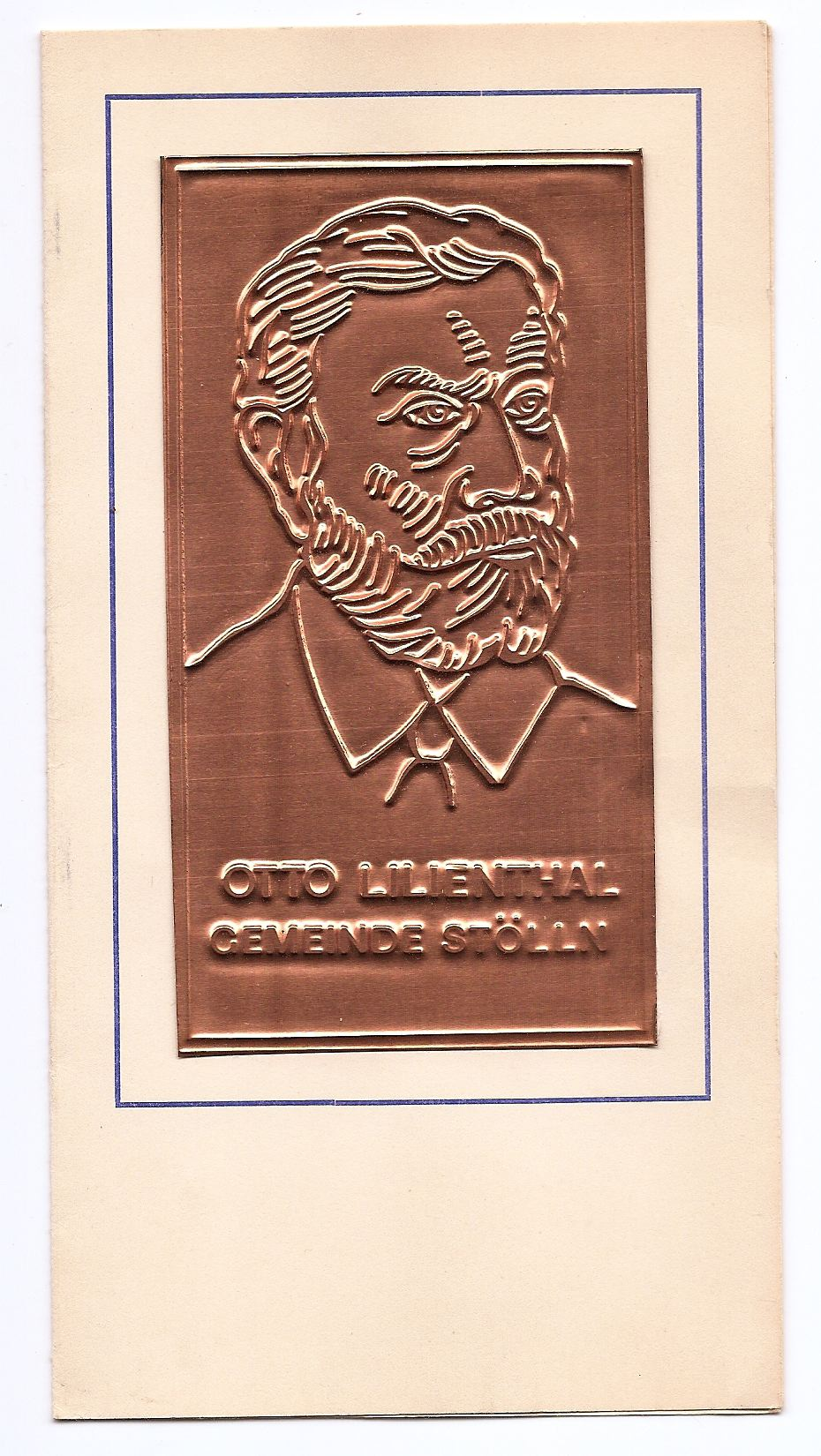 Lilienthal, Otto, 1848 Anklam - 1896 Berlin A thin uniface bronze sheet 70 x 130 mm fixed on the card of issue at Stölln, where he did his flight experiments, also his fatal one in 1896. Therefore, the airport Stölln / Rhinow in the German state Brandenburg can be considered the oldest airport of the world. Portrait r., 2 lines below: "OTTO LIILIENTHAL GEMEINDE STÖLLN" Condition: EXTREMELY FINE